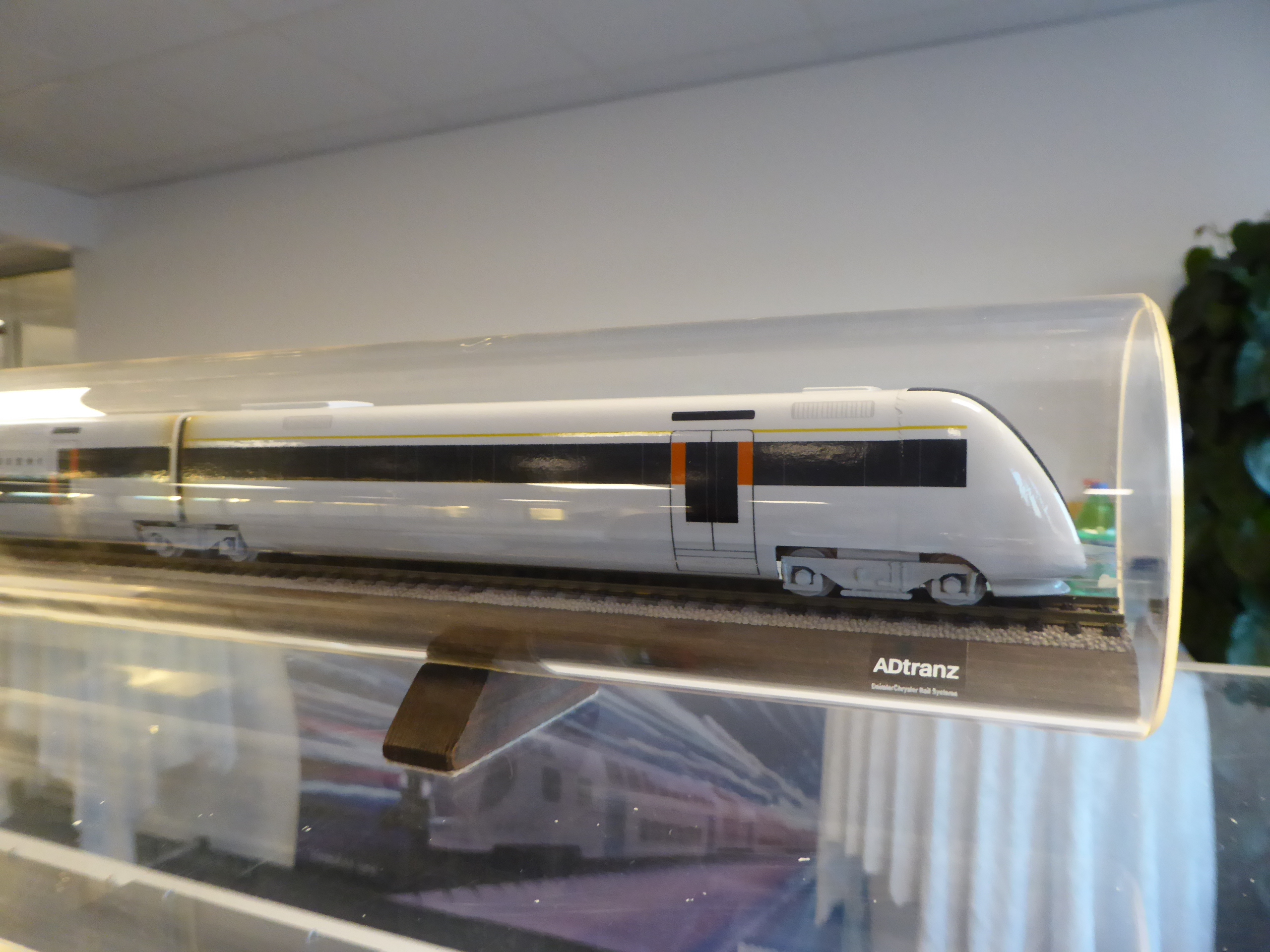 Exhibition at Bombardier Denmark featuring models of trains produced by Bombardier and it's predecessors. Model of suggestion to diesel multiple unit IC4 for DSB. In the end the trains were produced by AnsaldoBreda however.